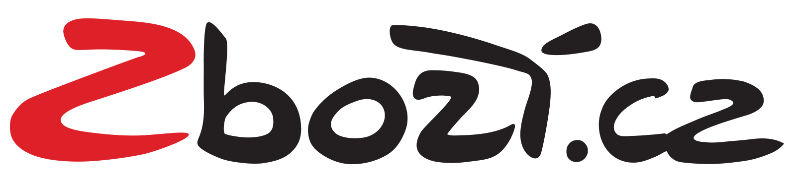 Company logo of Zboží.cz